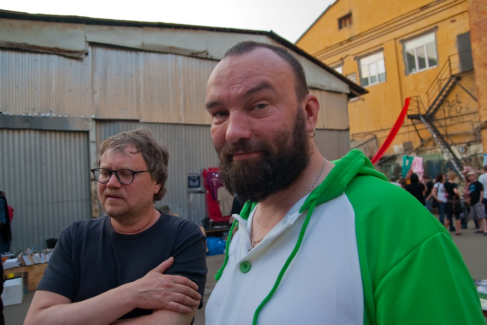 Russian publisher Alexandr Ivanov (left) and Boris Kuprianov Template:Los editores rusos Alexandr Ivanov (izquierda) y Borís Kupriánov